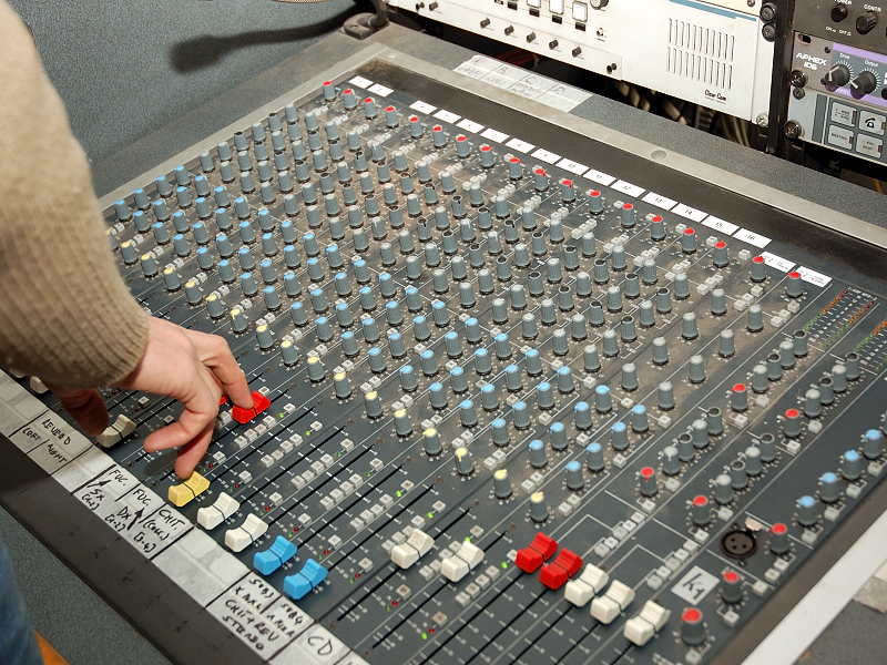 Soundcraft K1 console